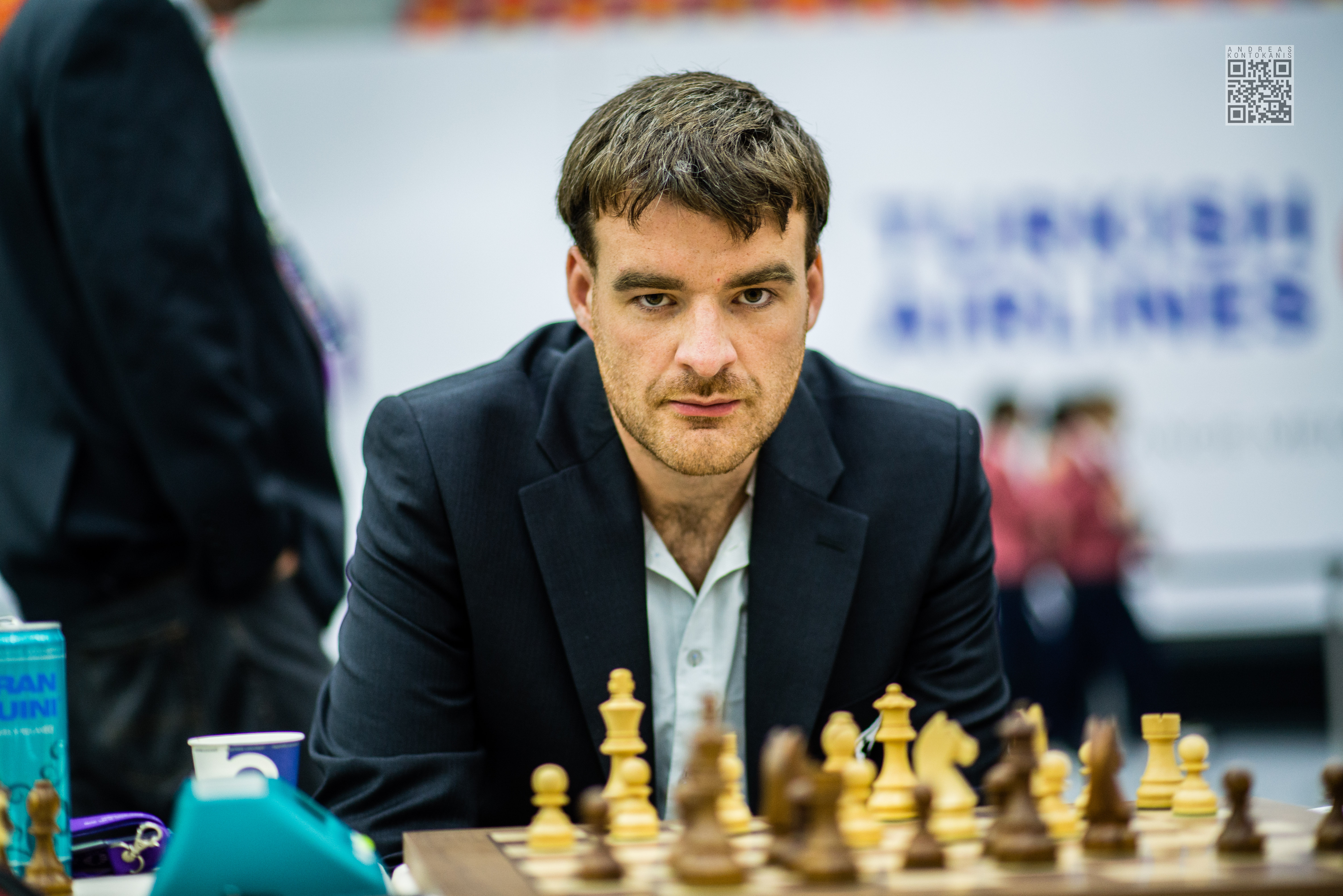 Jones Gawain